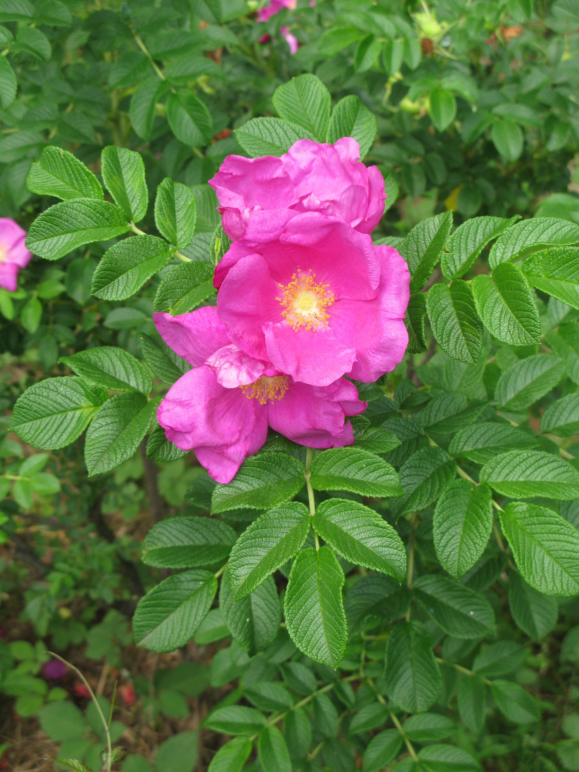 Rosa rugosa, Jindai Botanical Garden, Tokyo, Japan